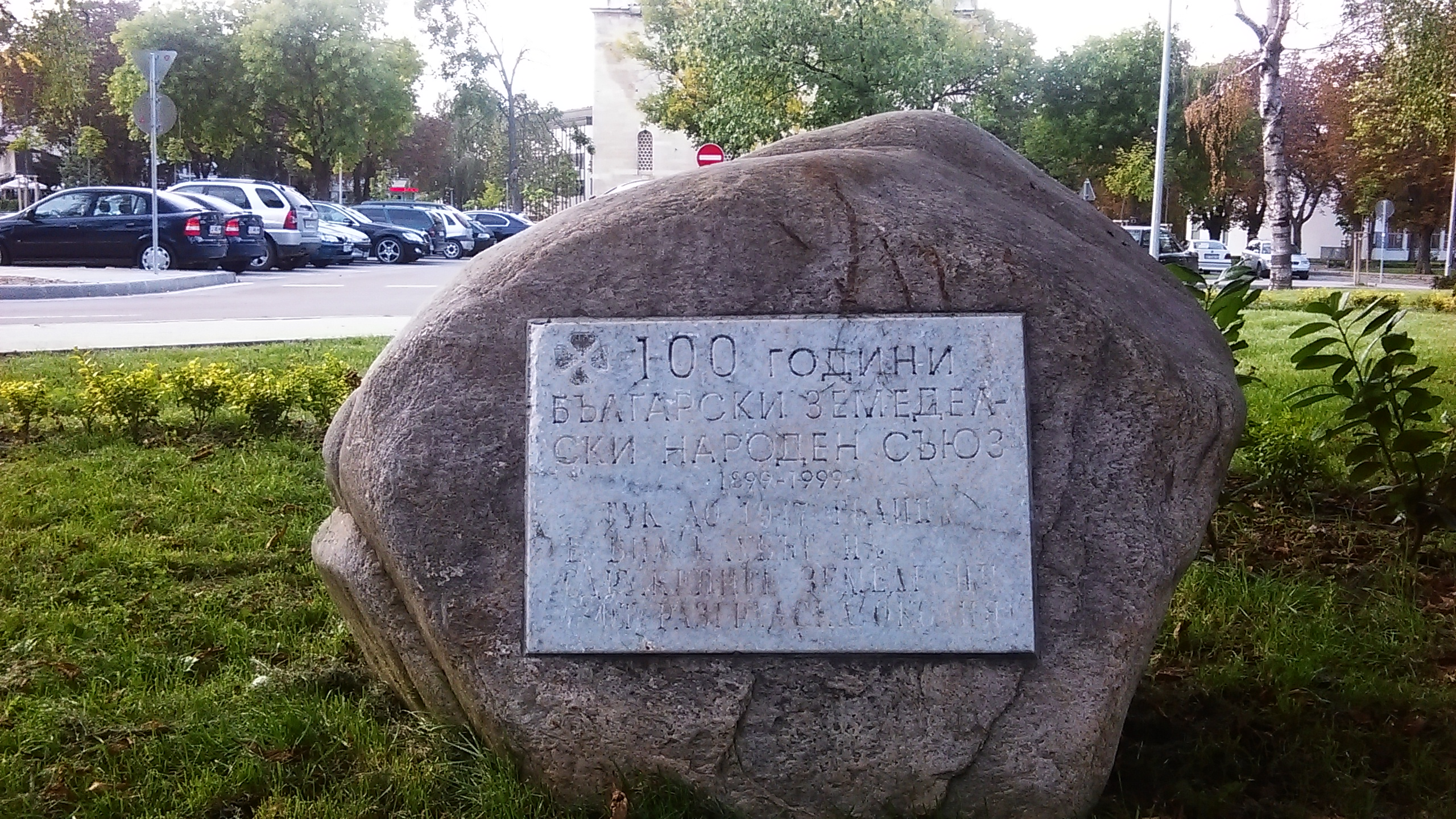 A memorial of the first club of Bulgarian Agrarian National Union near Ibrahim Pasha Mosque in Razgrad